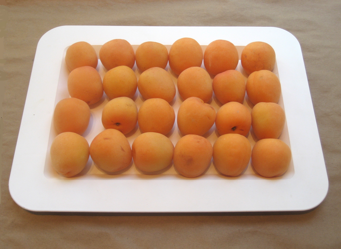 Fresh apricots in a Boston, Massachusetts, USA grocery